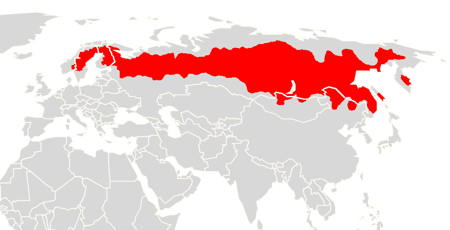 Wood Lemming (Myopus schisticolor), range map, depending on the range map at IUCN red list